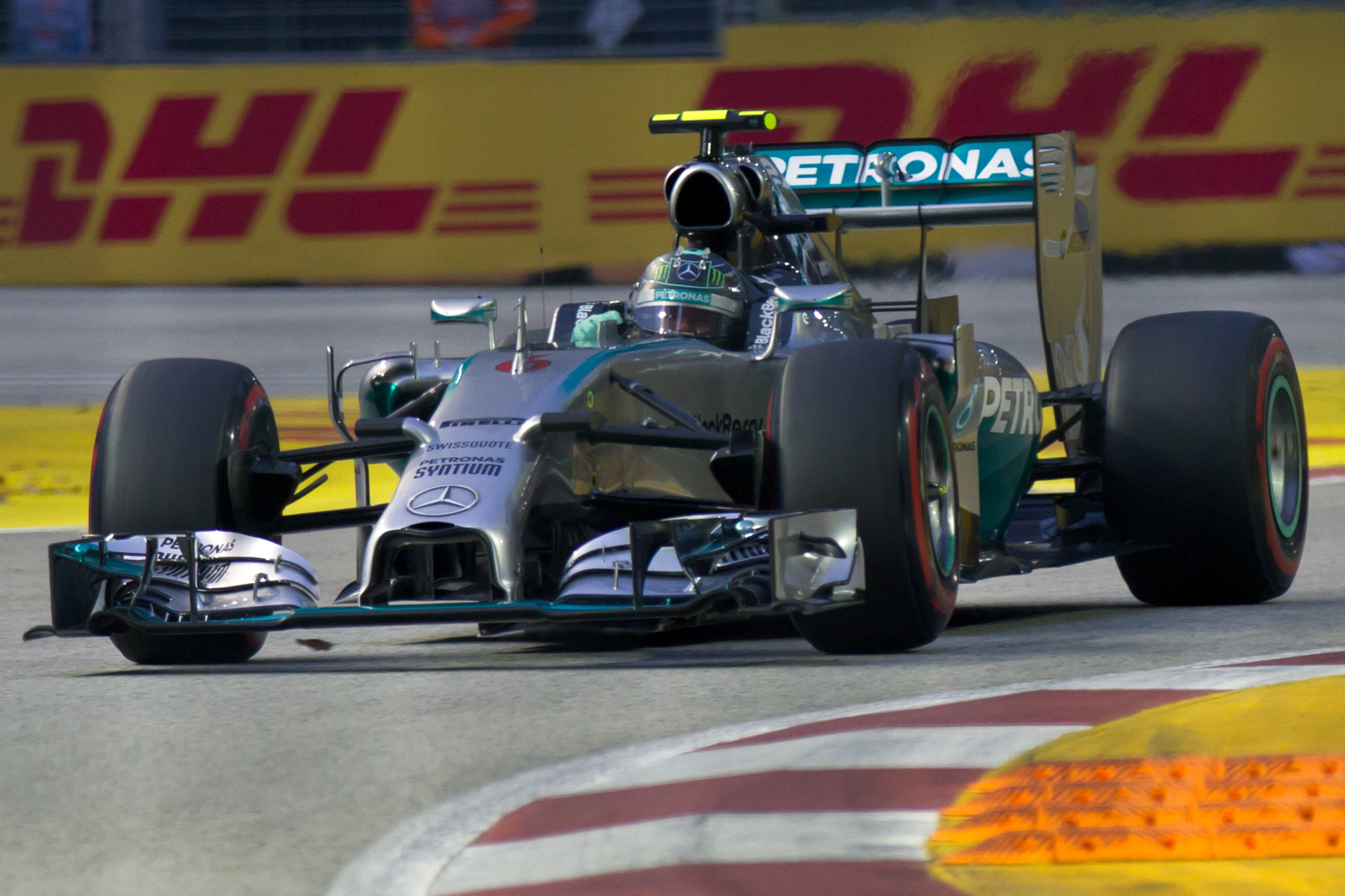 Formula One 2014 Rd.14 Singapore GP: Nico Rosberg (Mercedes GP)